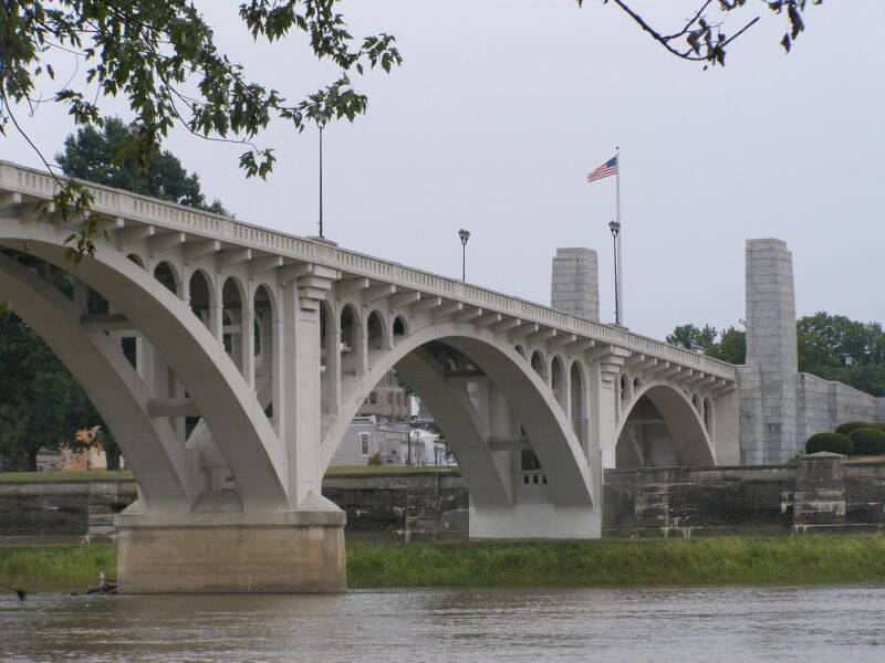 Lincoln Memorial Bridge, Vincennes, Indiana